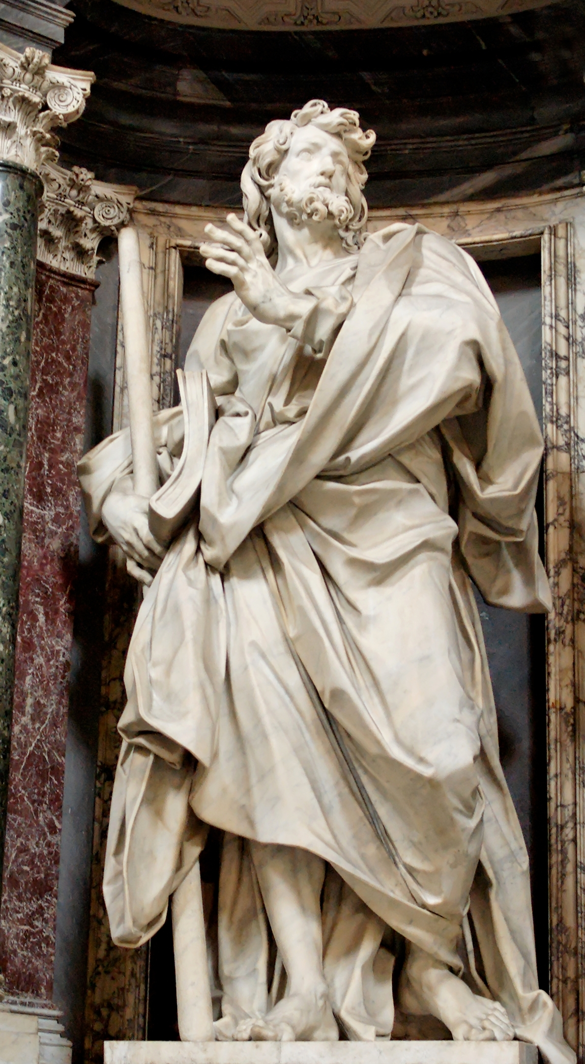 St. James the Less by Angelo de' Rossi. Nave of the Basilica of St. John Lateran (Rome).